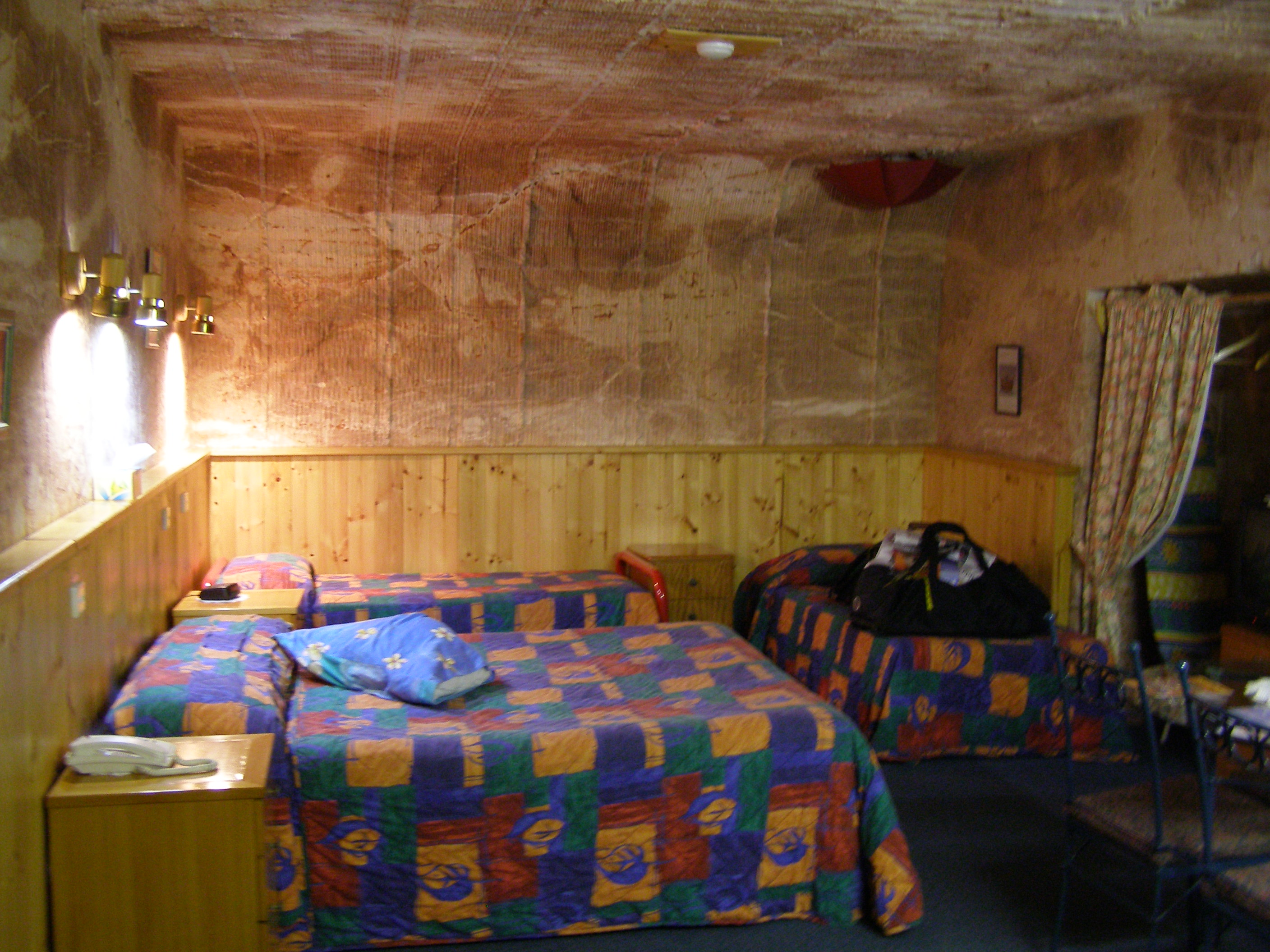 Coober Pedy underground motel room, 2007. The upside-down umbrella in the corner of the ceiling is used to catch the dirt that falls down the ventilation shaft from the surface.